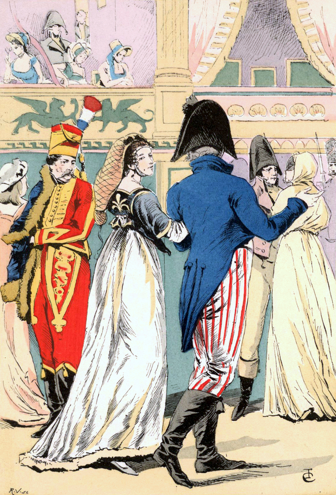 This plate is a scene at an opera ball. In 1715, the regent of France instituted dancing at the Opera de Paris, especially around the time of Carnival. These balls were public and promoted a democratic atmosphere.